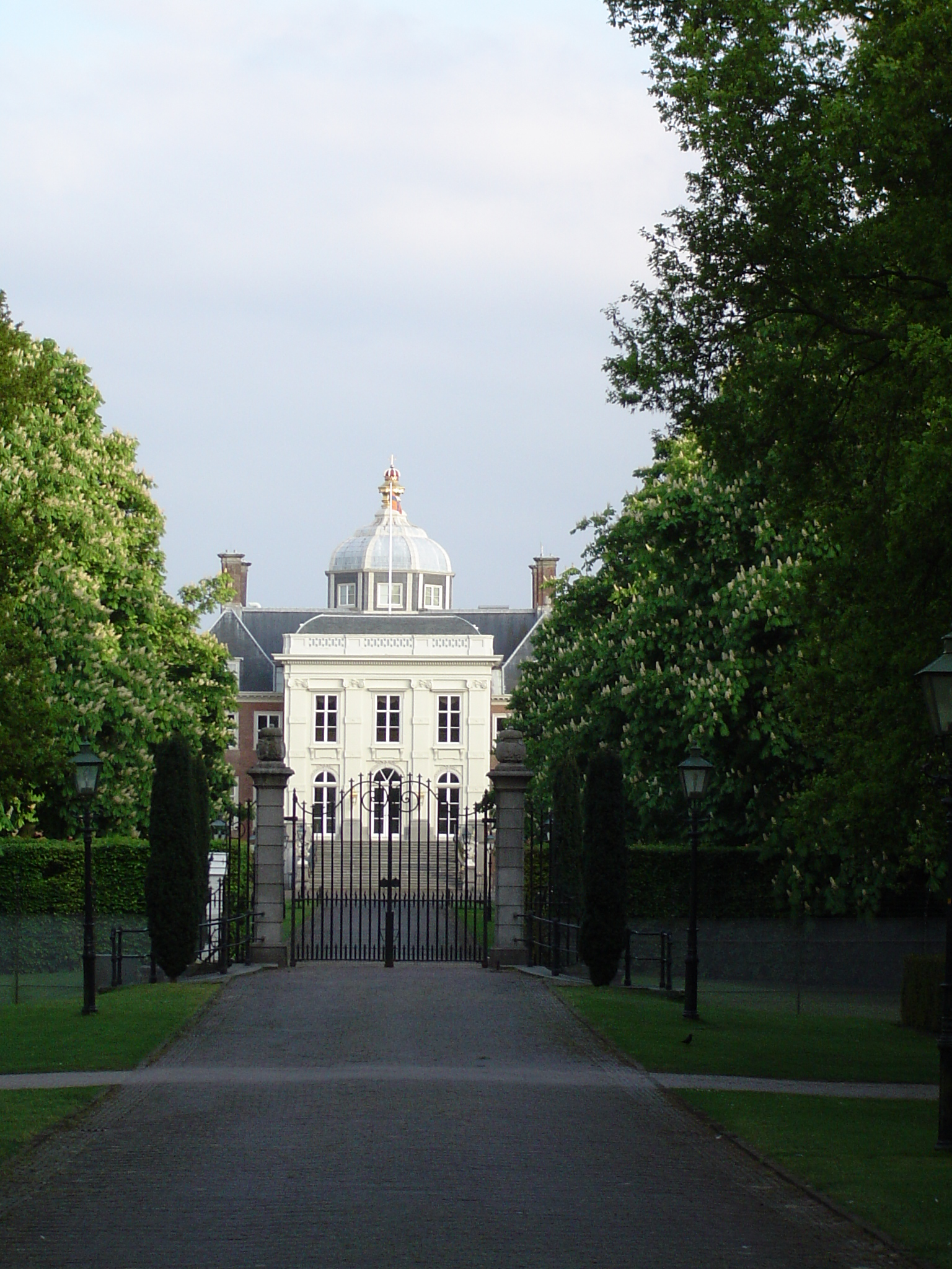 Huis ten Bosch, residence of the Queen of the Netherlands in The Hague Made in 2004